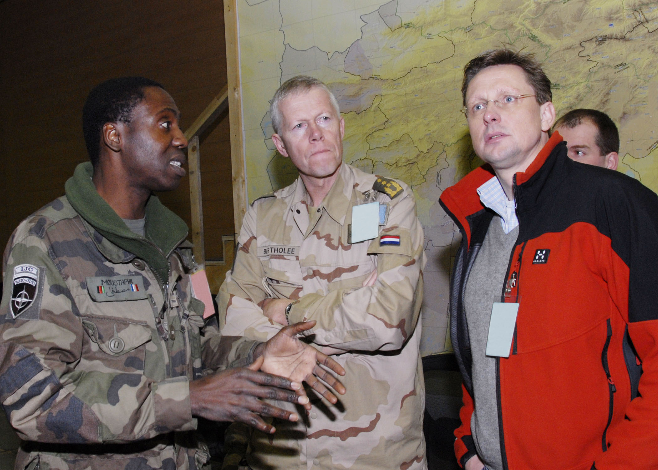 KABUL, Afghanistan - International Security Assistance Force Joint Command French Lt. Col. Soule Moustapha provides an overview of the Combined Joint Operations Center to Commander of the Royal Netherlands Army Lt. Gen. Robert A.C. Bertholee and Netherlands member of Parliament Han ten Broeke during a visit to IJC in Kabul Jan. 27. (ISAF Joint Command photo by U.S. Air Force Master Sgt. Matthew Millson)